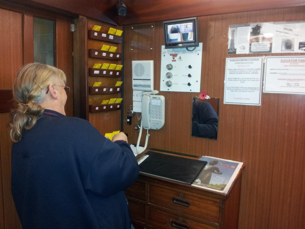 Whanganui, Durie Hill lift.